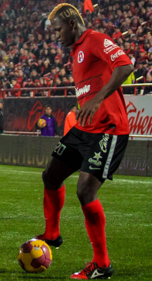 Duvier Riascos at Xolos de Tijuana vs Toluca, November 29, 2012.